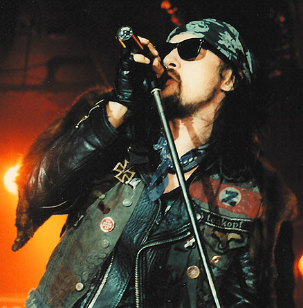 Zodiac Mindwarp on stage at L'Amour in Brooklyn, NY, circa 1989